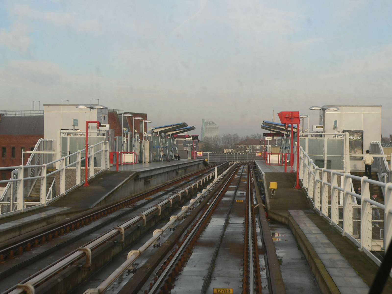 Deptford Bridge DLR station on the Lewisham branch of the Docklands Light Railway photographed from a southbound train en-route to Elverson Road station.